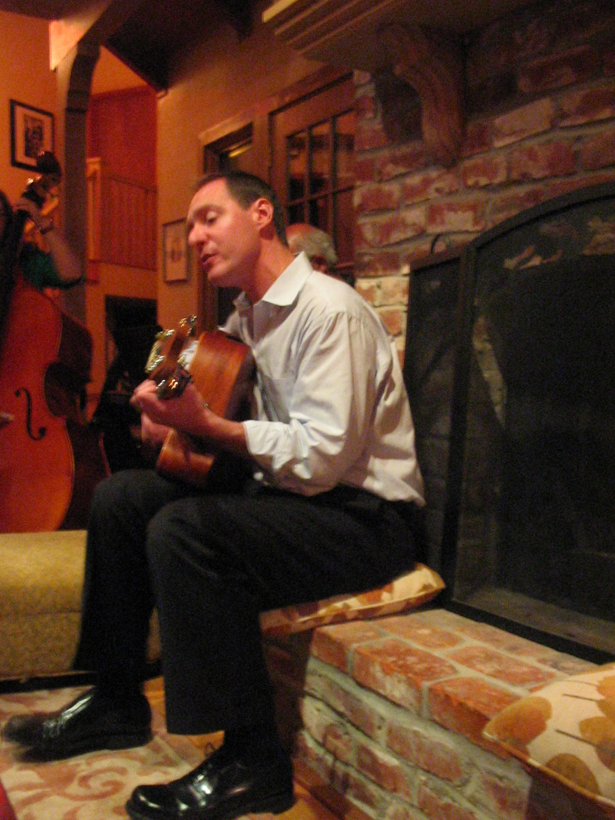 Dan Nichols playing guitar at a Shabbat gathering for Congregation Rodef Sholom